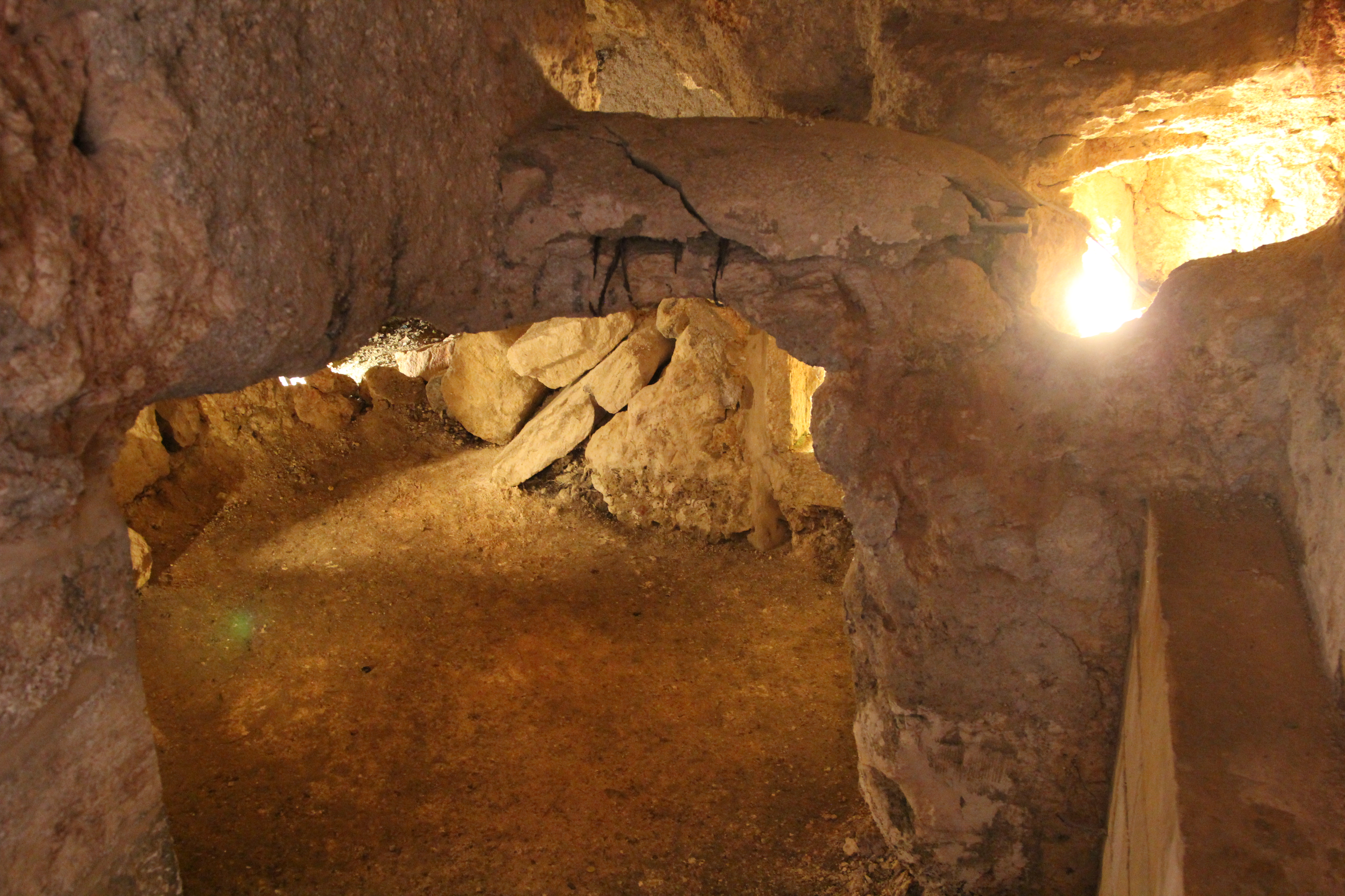 Grotto in Pater Noster Church